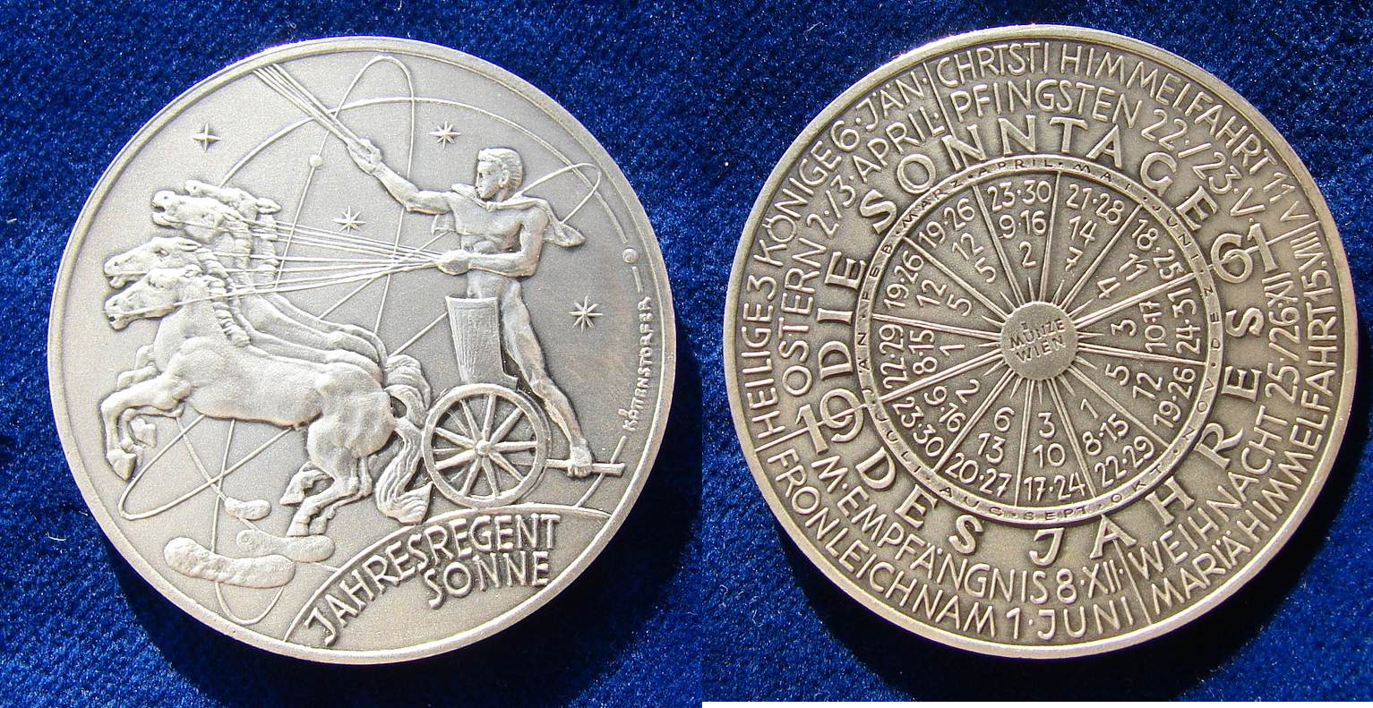 Silvered bronze, d. = 40 mm. Sol riding a quadriga l., constellation Ursa Major above, 2 lines curved below: "JAHRESREGENT SONNE"/ 1961 calendar showing the Sundays in sectors around 2 lines in the centre: "MÜNZE WIEN" (Vienna Mint). The date is divided by this, and around: "SONNTAGE DES JAHRES". The dates of the Christian public holidays that were celebrated in Austria are shown in 2 lines further out. Medallist: (Prof. Hans) Köttenstorfer, medallist in Vienna, 1911 Steyr - 1995 Steyr, Oberösterreich, Austria Condition : UNCIRCULATED